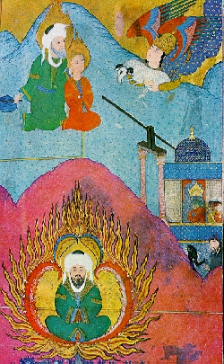 One of the richly illustrated manuscripts of the sixteenth century is the Zubdat-al Tawarikh in the Museum of Turkish and Islamic Arts in Istanbul, dedicated to Sultan Murad III in 1583. The manuscript contains forty miniatures of the finest quality reflecting the mature Ottoman court style of the latter part of the sixteenth century. Upper image: Abraham preparing to sacrifice Ishmael (Muslims believe that Ishmael not Isaac was almost sacrificed). The angel appears with the ram at right. Lower image: Abraham miraculously unharmed after being cast into fire, watched by Nimrod at the right.